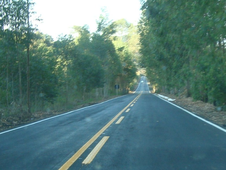 Road AMG-1750 in Cajuri, Minas Gerais, Brazil